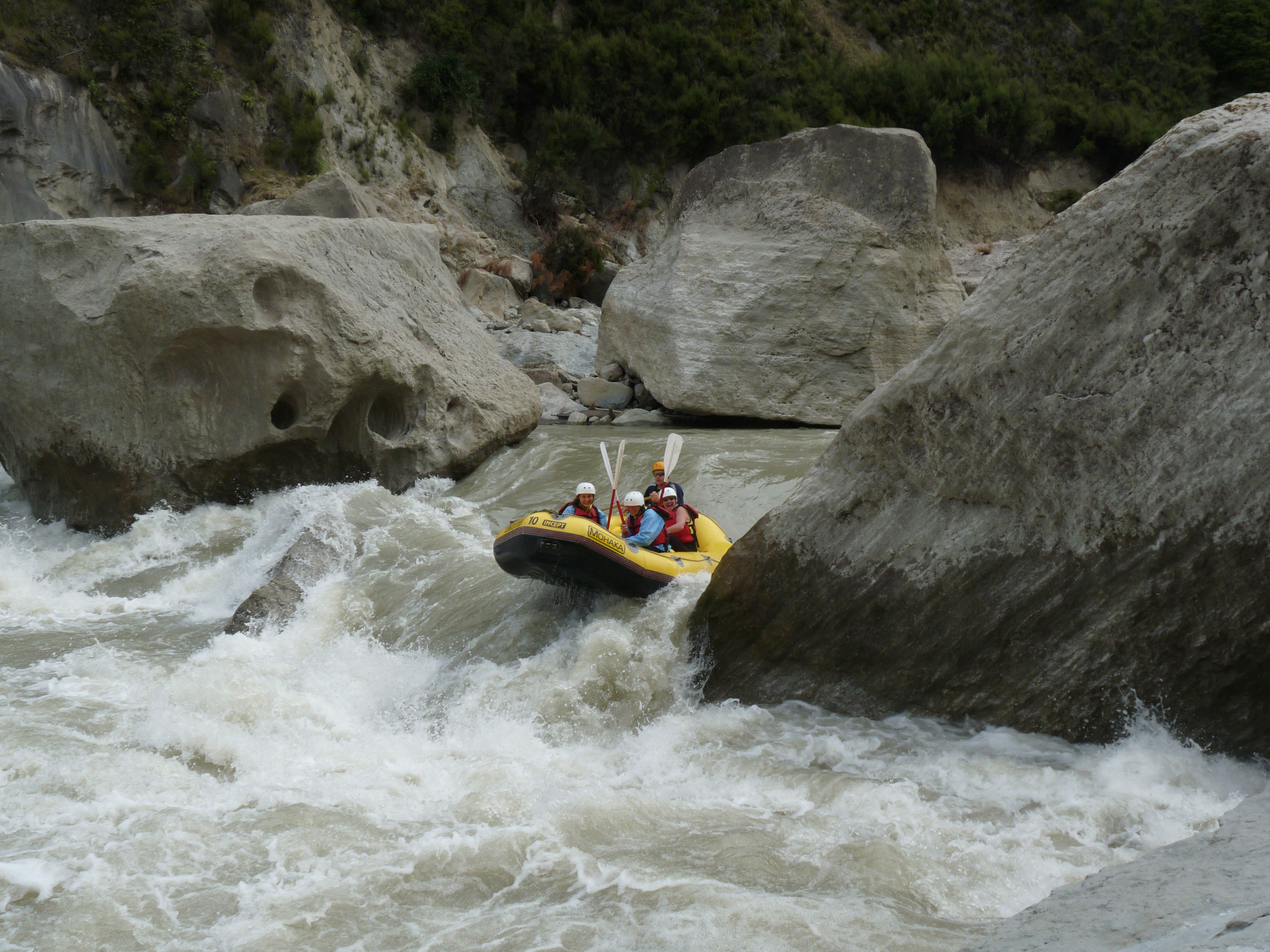 Guide's Launch rapid along the Mohaka River, above Willow Flat